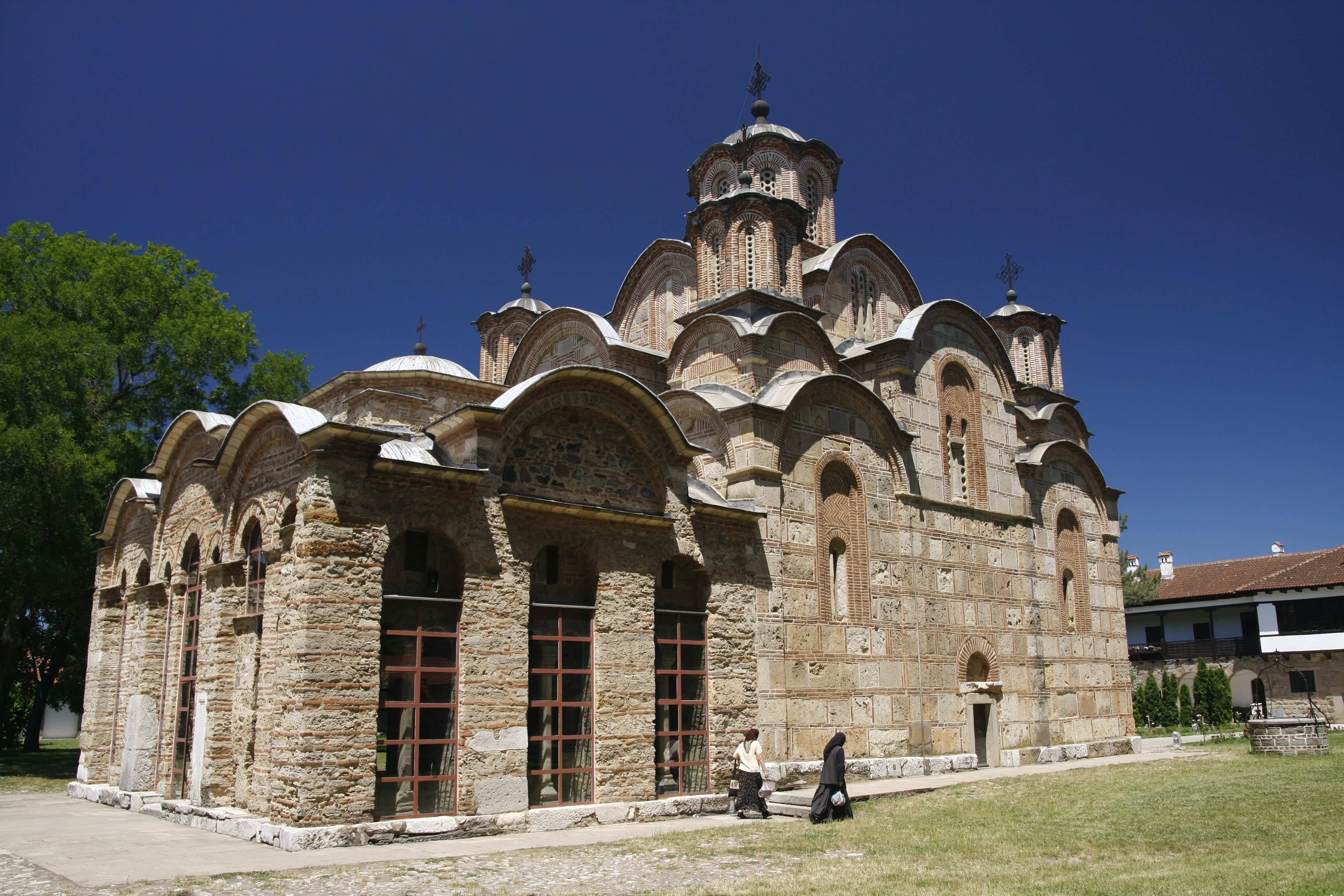 Gracanica